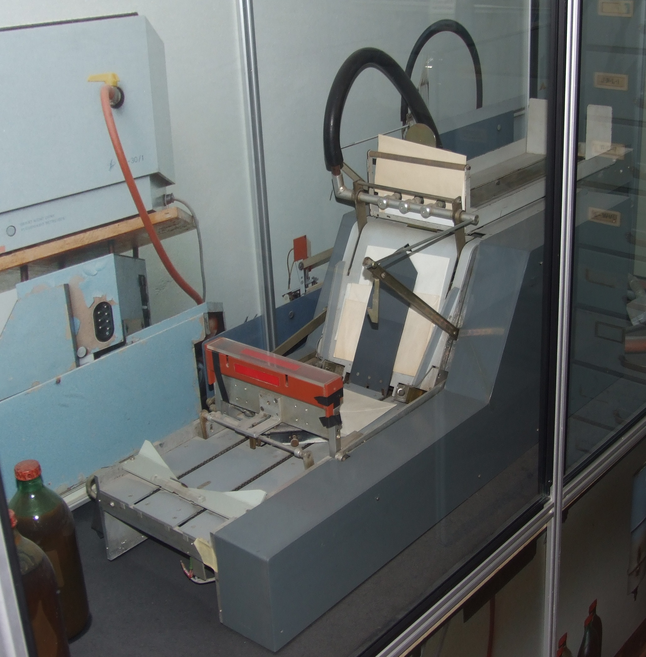 This machine belonged to the postal inspection department of the Stasi. It automatically resealed envelopes.